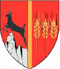 Coat of arms of Neamț County, Romania.